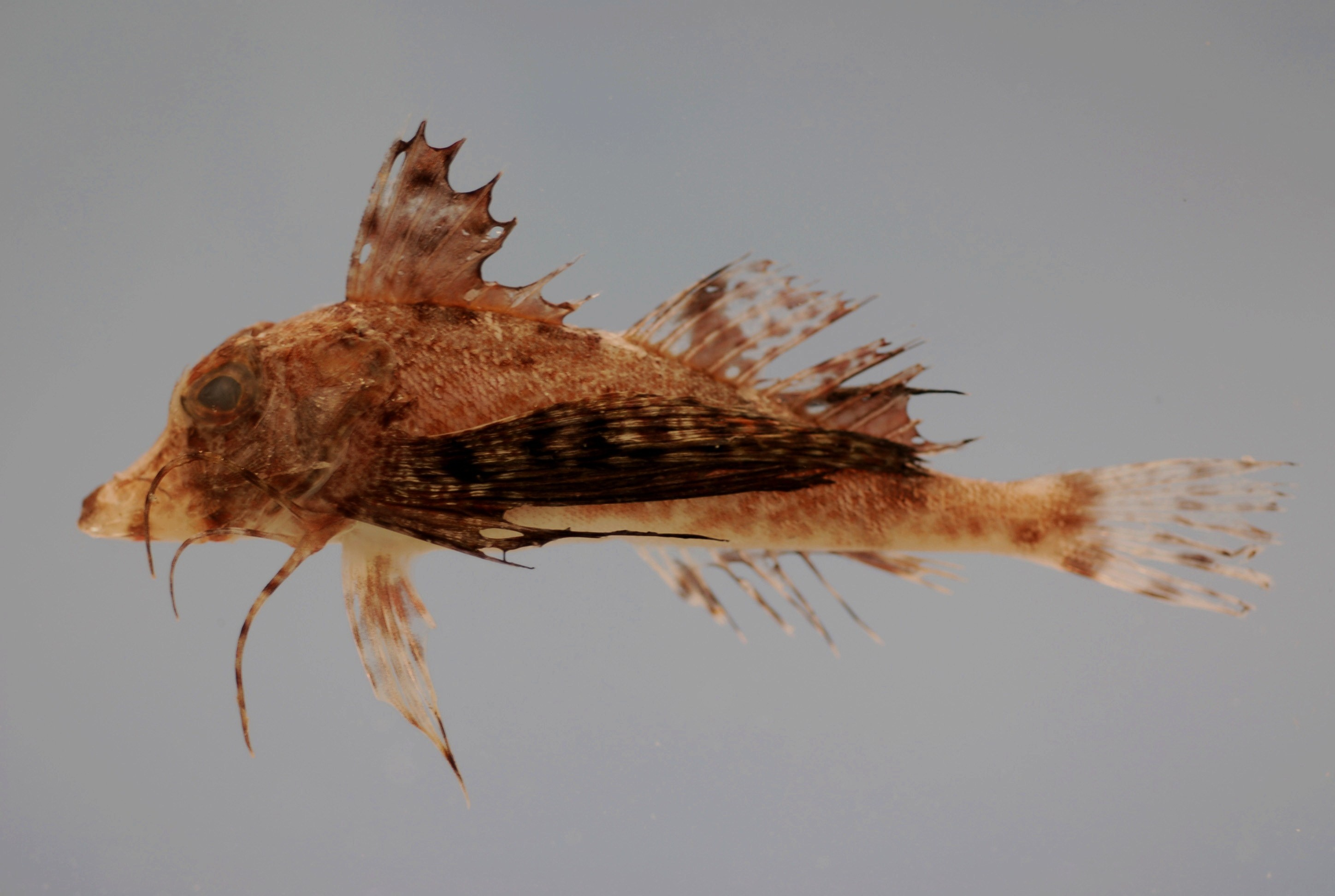 Bignead searobin ( Prionotus tribulus )